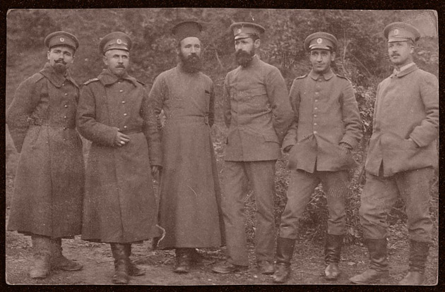 Soliders from 11th Infantry Division (Bulgaria) during WWI